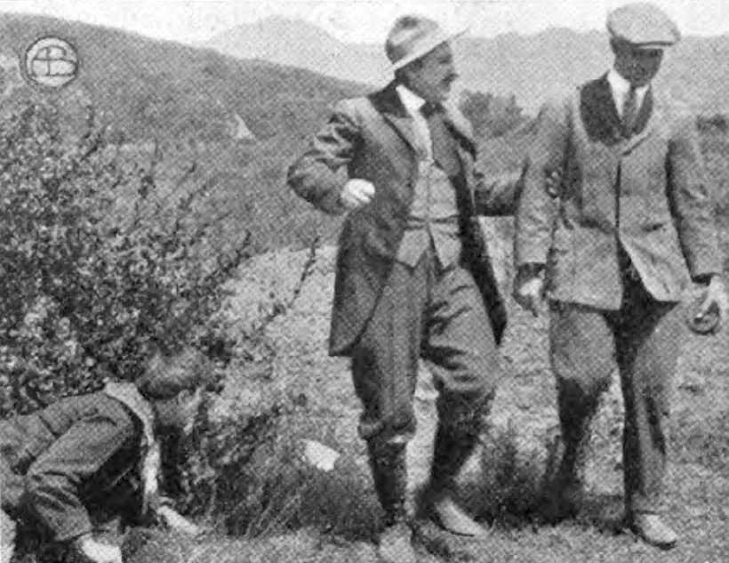 Still from the 1913 film Olaf—An Atom, starring Harry Carey The film was later re-released with the title The Wanderer, coincidentally the title of a different 1913 Biograph Company release. This still appears within excerpts of the film surviving under the title of The Wanderer, seen here, at approximately 4:41.